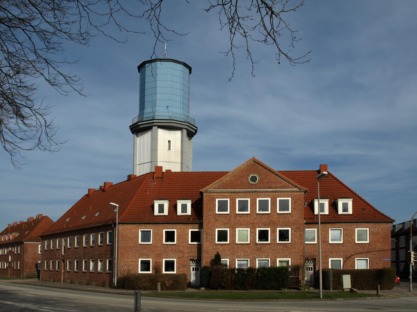 Water tower Schleswig Schubystr.(Schleswig-Holstein, Germany) photo 2011